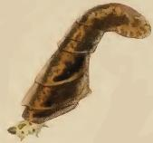 Stainton’s Natural History of the Tineina (1855–1873): Coleophora discordella larval case